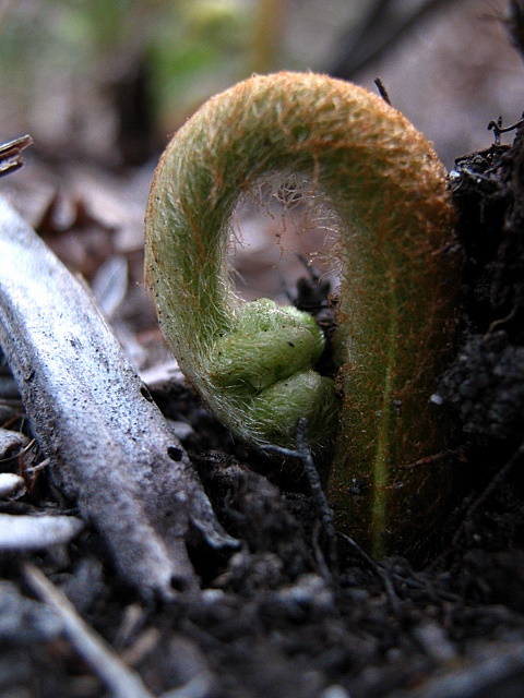 A young Pteridium aquilinum fern, pushing its way through the soil at the start of spring